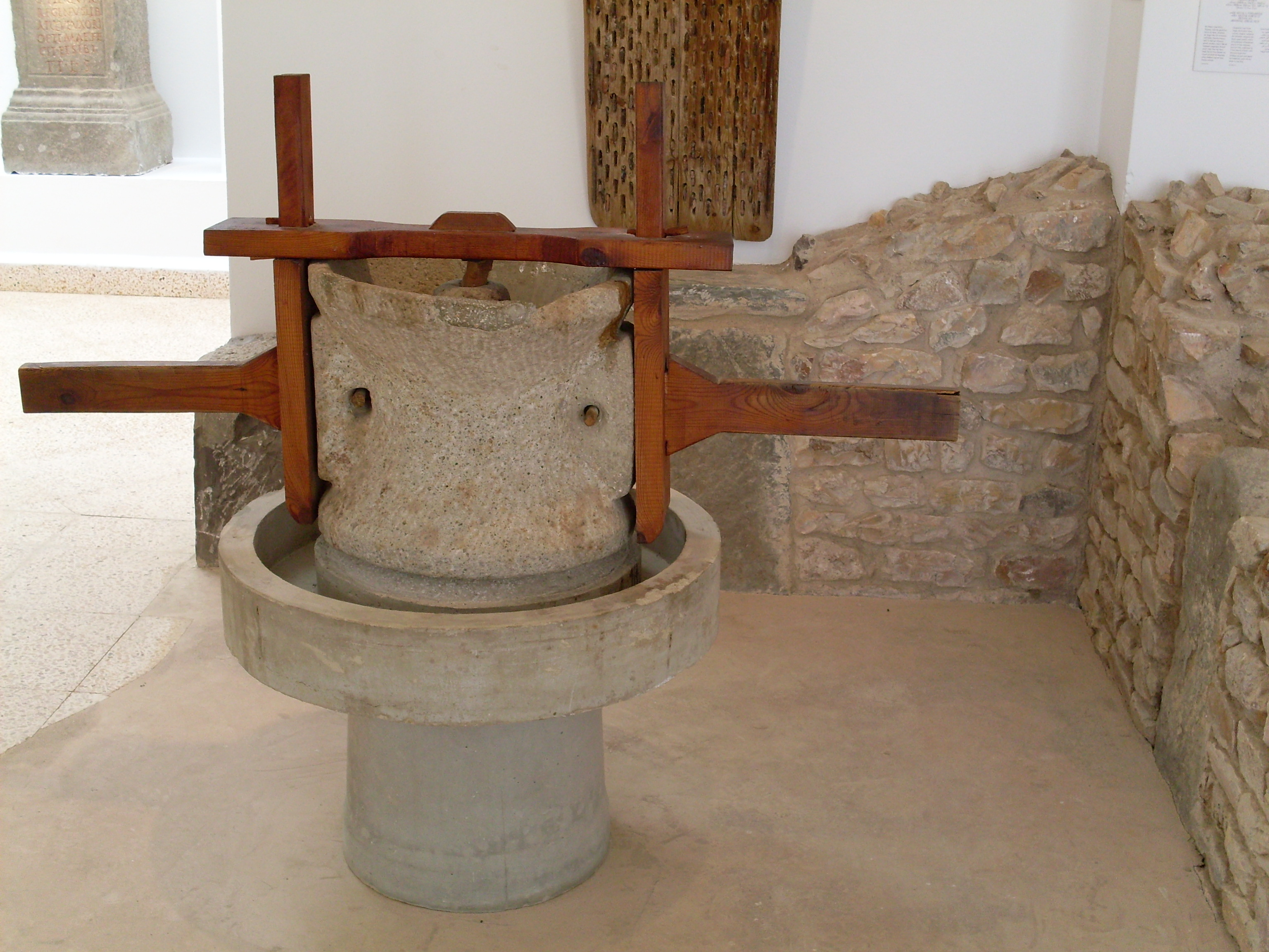 Moulin au musée archéologique de Chemtou, Chemtou, Gouvernerat de Jendouba, Tunisie